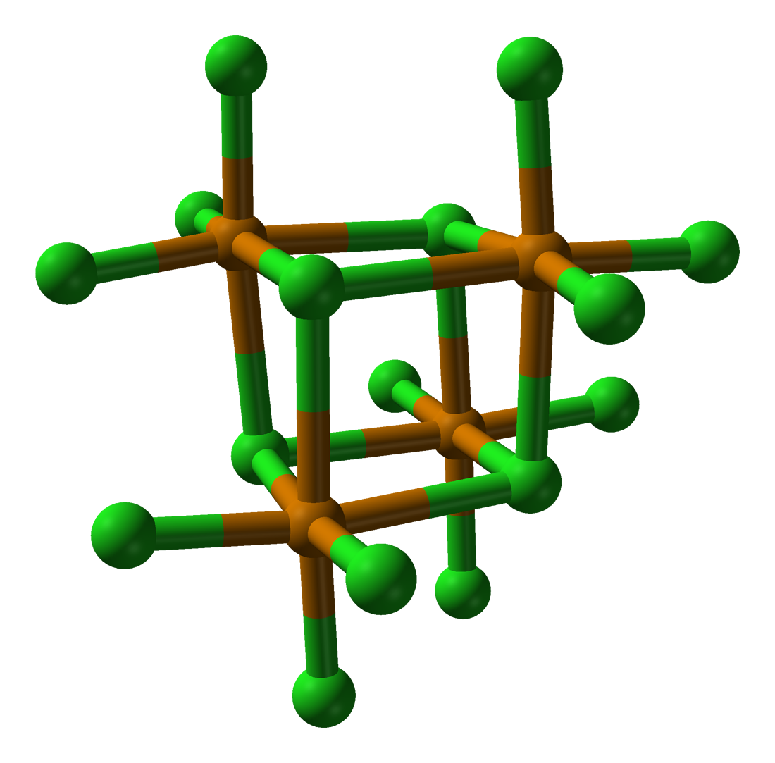 Ball-and-stick model of a Te4Cl16 tetramer from the crystal structure of tellurium tetrachloride, TeCl4. X-ray diffraction data from Acta Cryst. (1990). B46, 166-174. Model constructed in CrystalMaker 8.1. Image generated in Accelrys DS Visualizer.